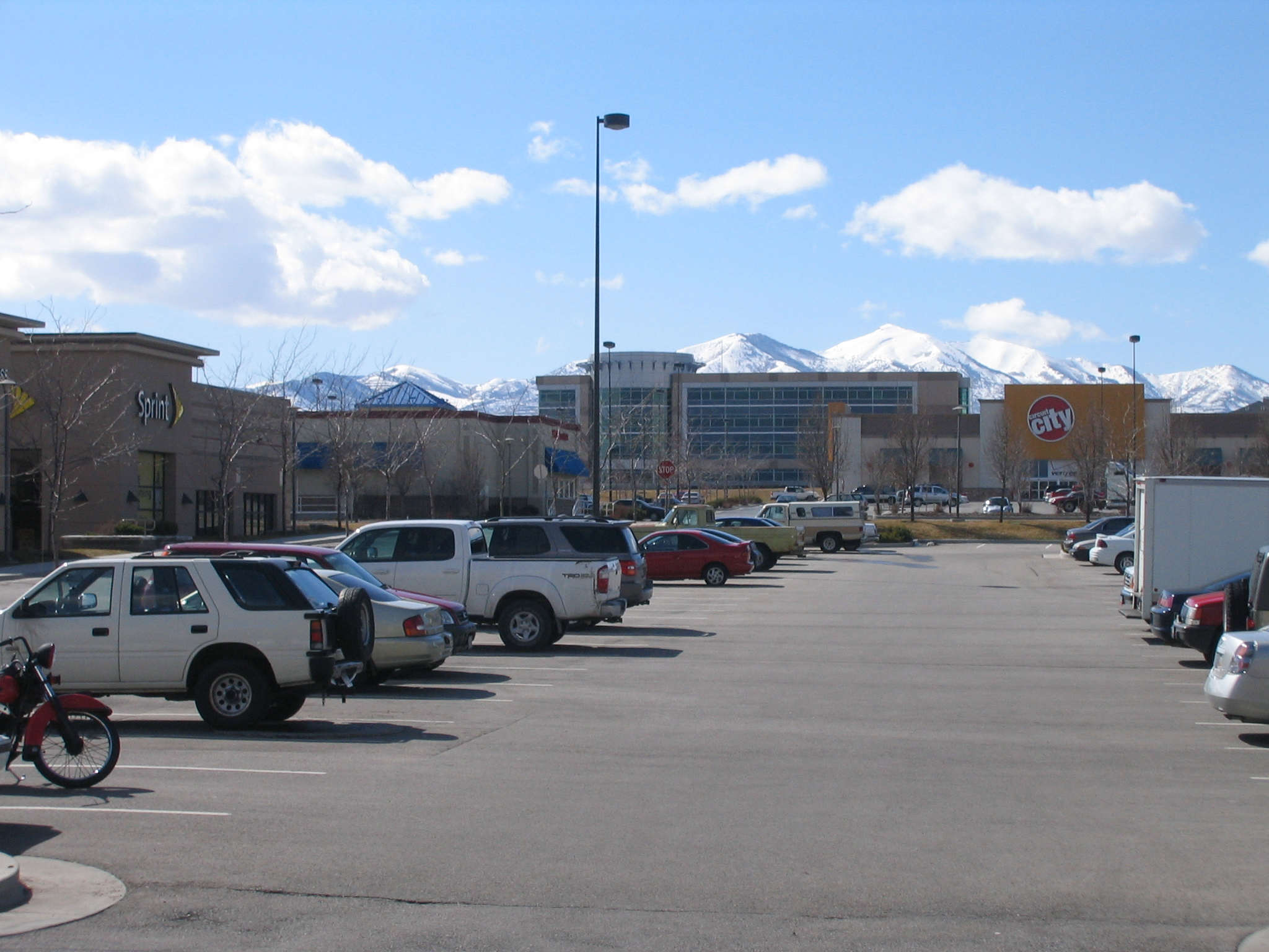 Looks to be a photo of a parking lot